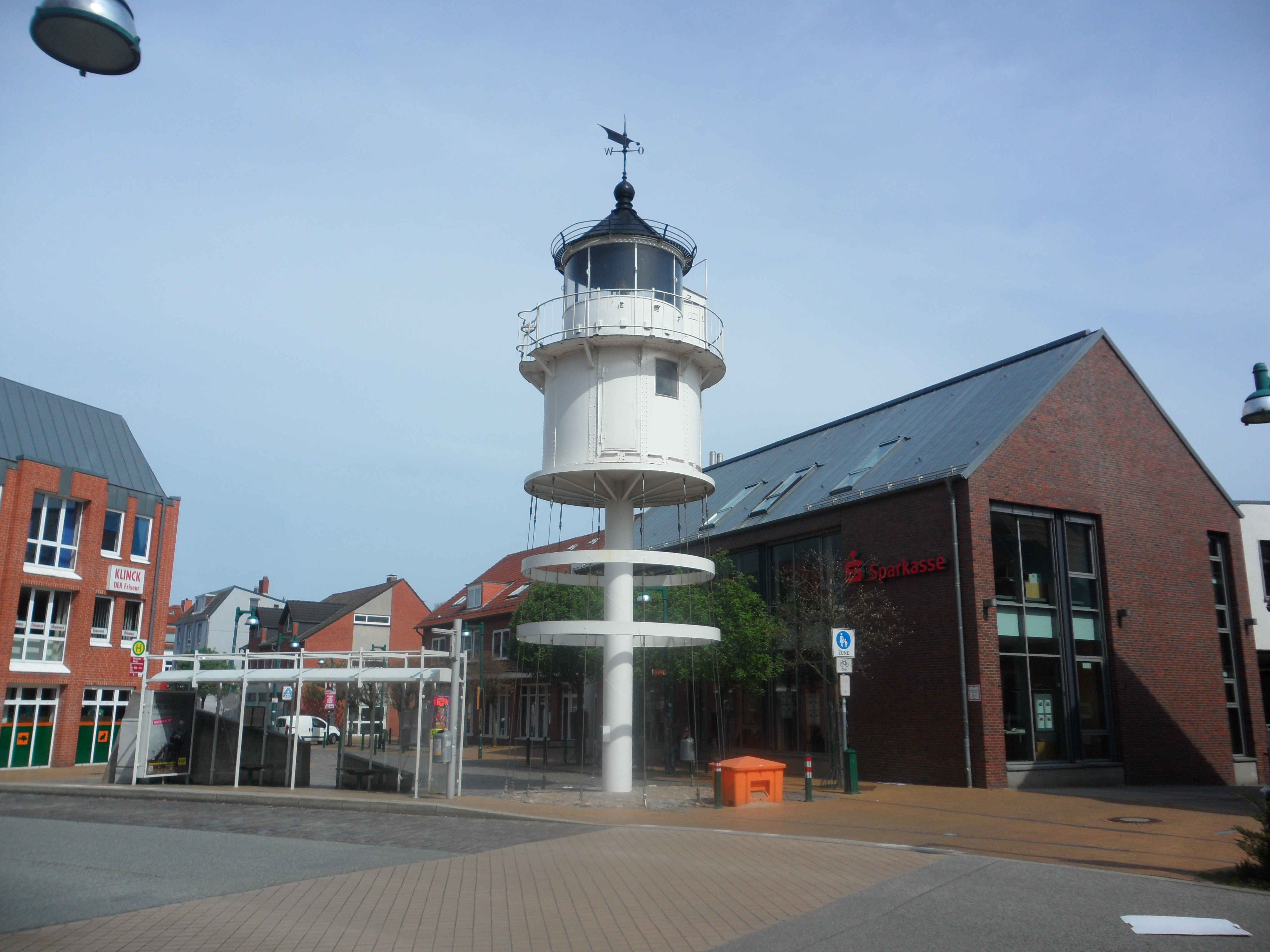 Upper part of the old lighthouse Friedrichsort ind the city centre of Friedrichsort